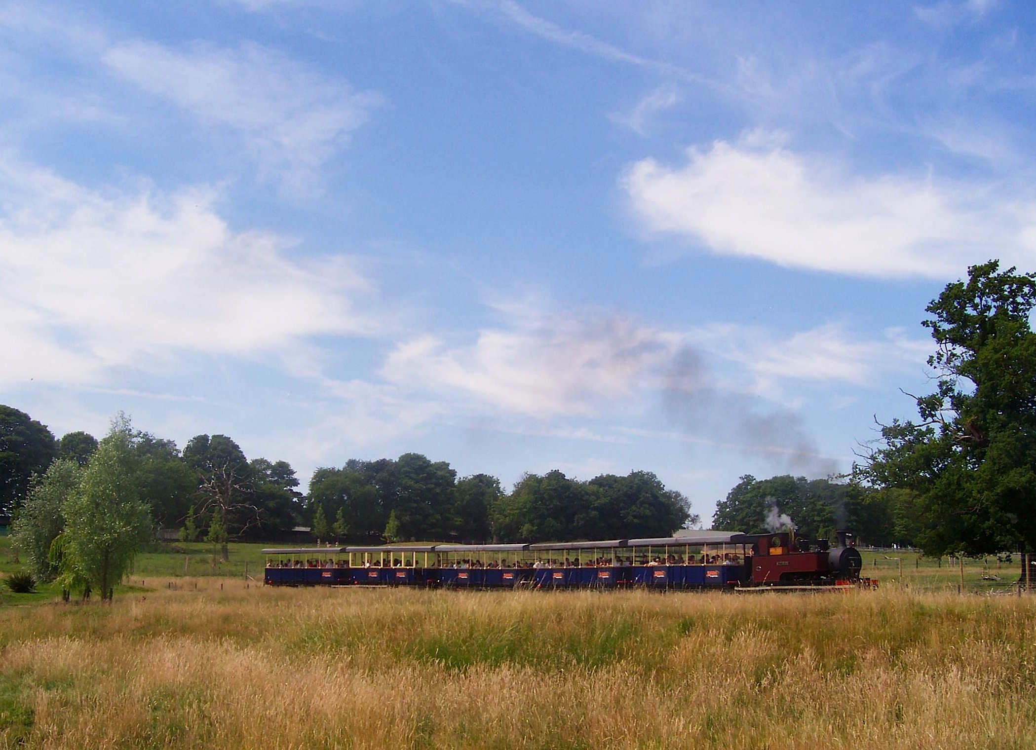 Newly overhauled Kerr Stuart (4034 of 1920) 0-6-2T Baretto Class No. 4 'SUPERIOR' with its train, approaches Whipsnade Central station